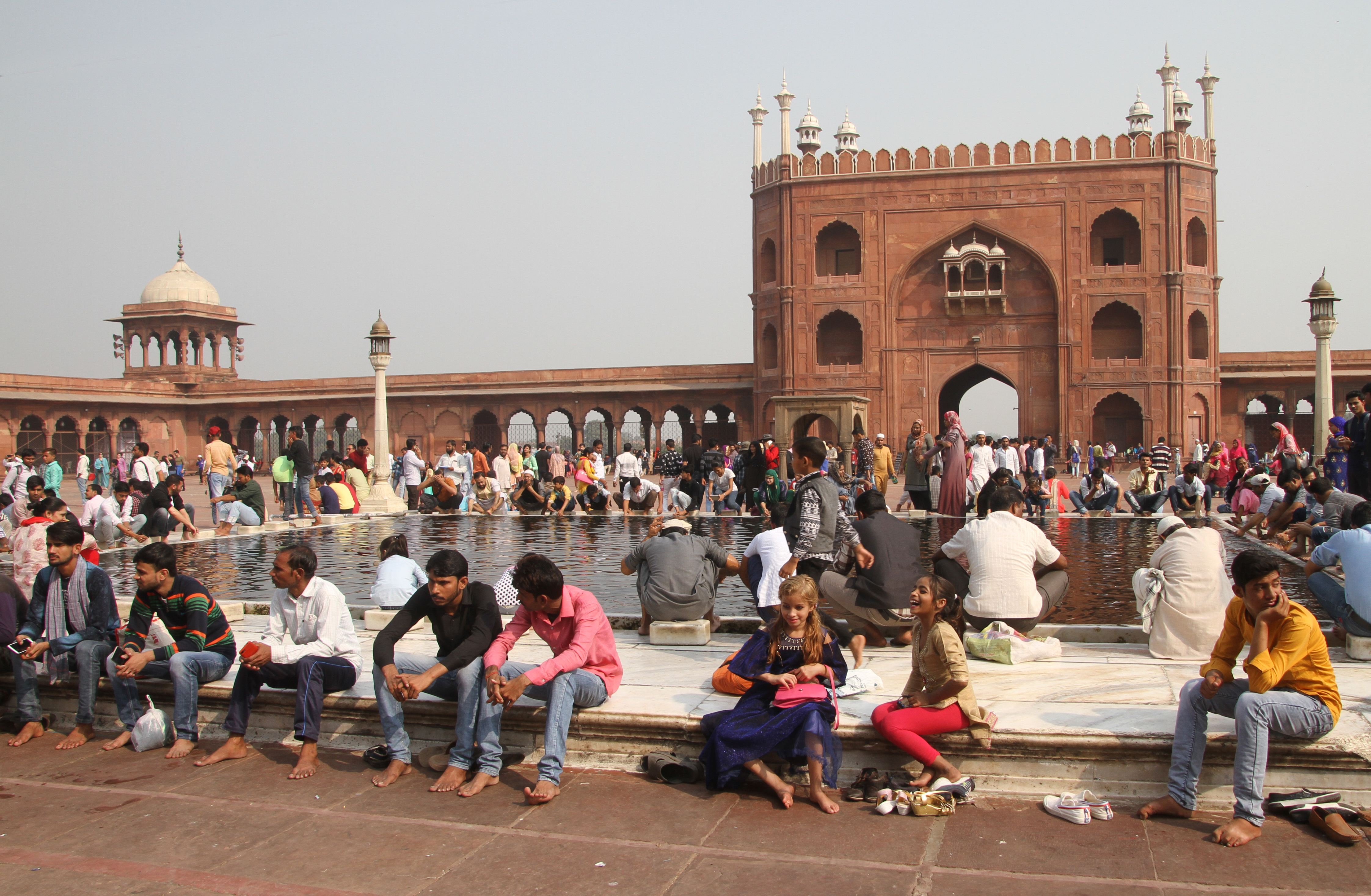 Jama Masjid, Delhi